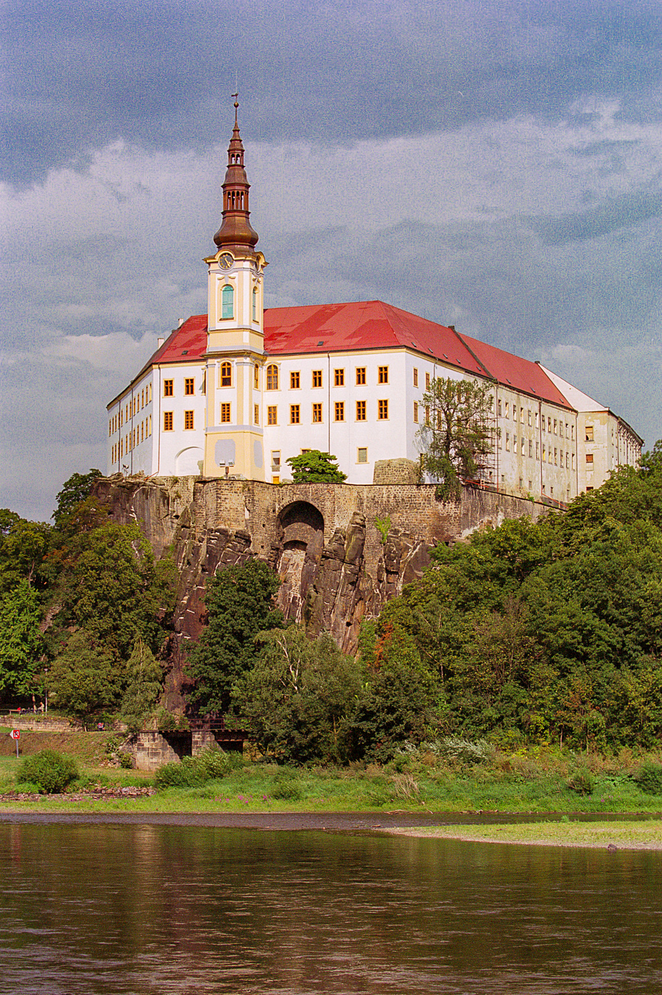 Castle in Děčín in the Czech Republic